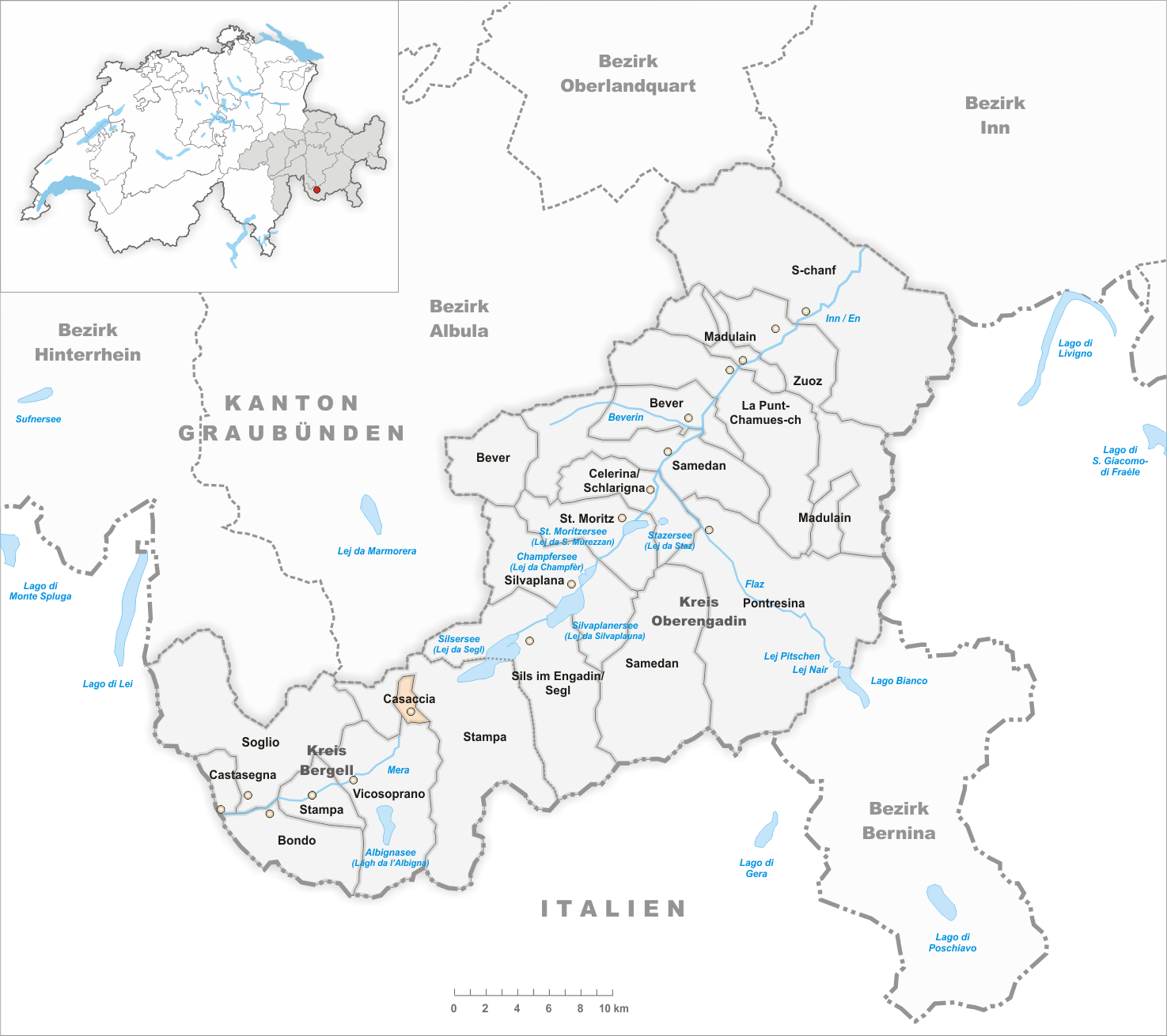 Municipality Casaccia Artist: Tschubby